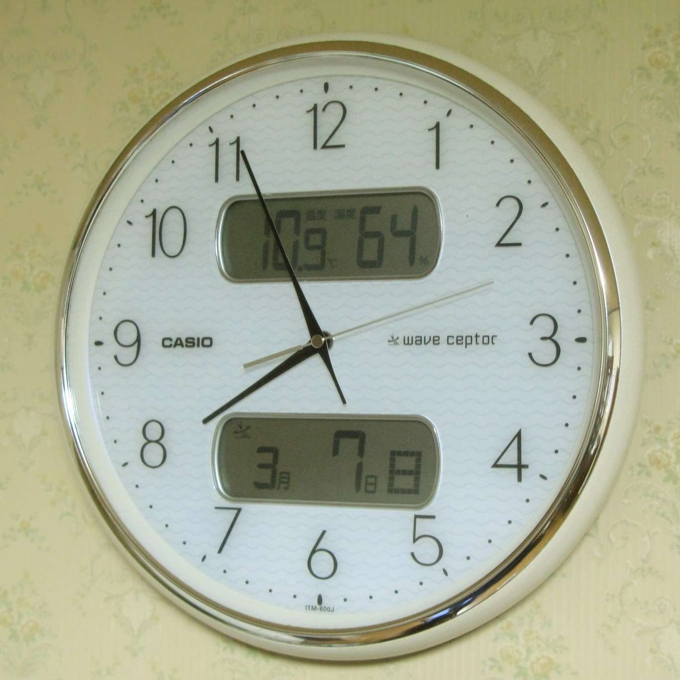 CASIO Clock Wave Ceptor ITM-600J-7JF